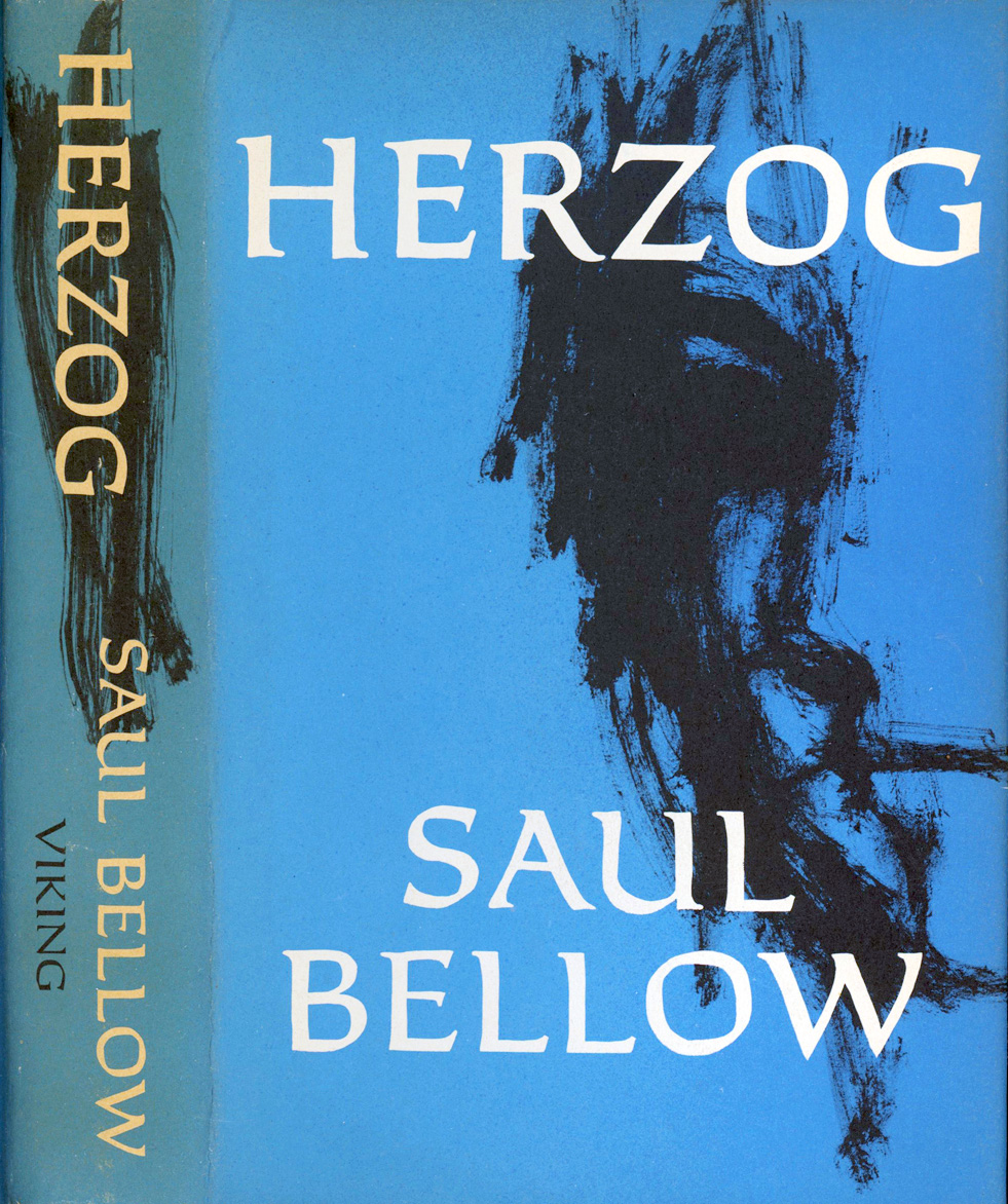 Cover design from the first-edition dust jacket of the 1964 novel Herzog by the Canadian-American author Saul Bellow. Published by Viking Press.